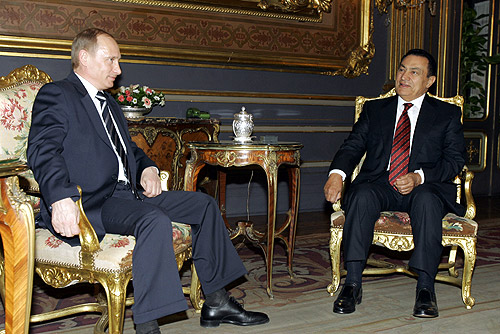 CAIRO. Meeting with President of the Republic of Egypt Hosni Mubarak.